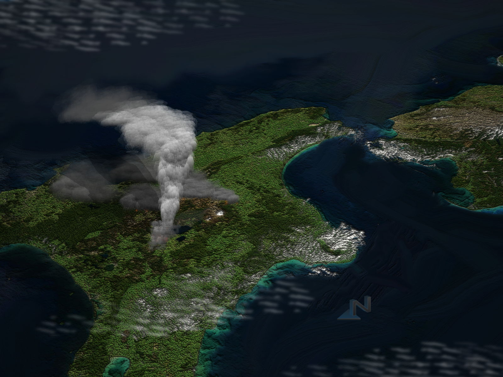 Oruanui eruption of Lake Taupo The eruption occurred over a period spanning months/years, the image here depicts a new eruption column during the early phase of the overall event.